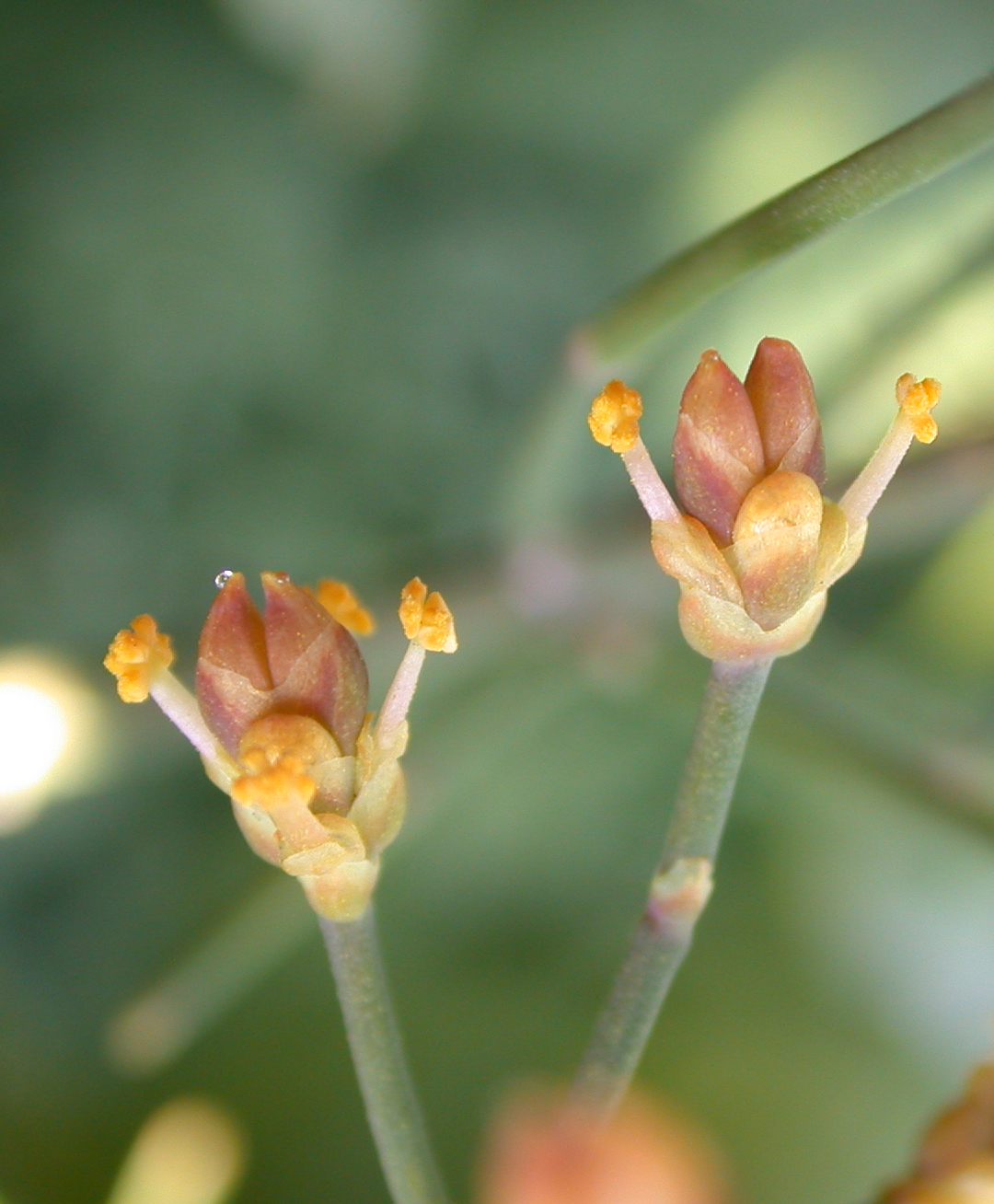 Ephedra foeminea Forssk. (שרביטן מצוי), Haifa, Israel, November 2006. Other names: Ephedra campylopoda C.A.Mey.